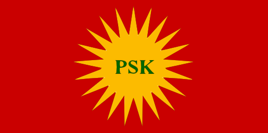 Flag of the Kurdistan Socialist Party